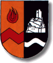 Coat of arms of Pantenburg